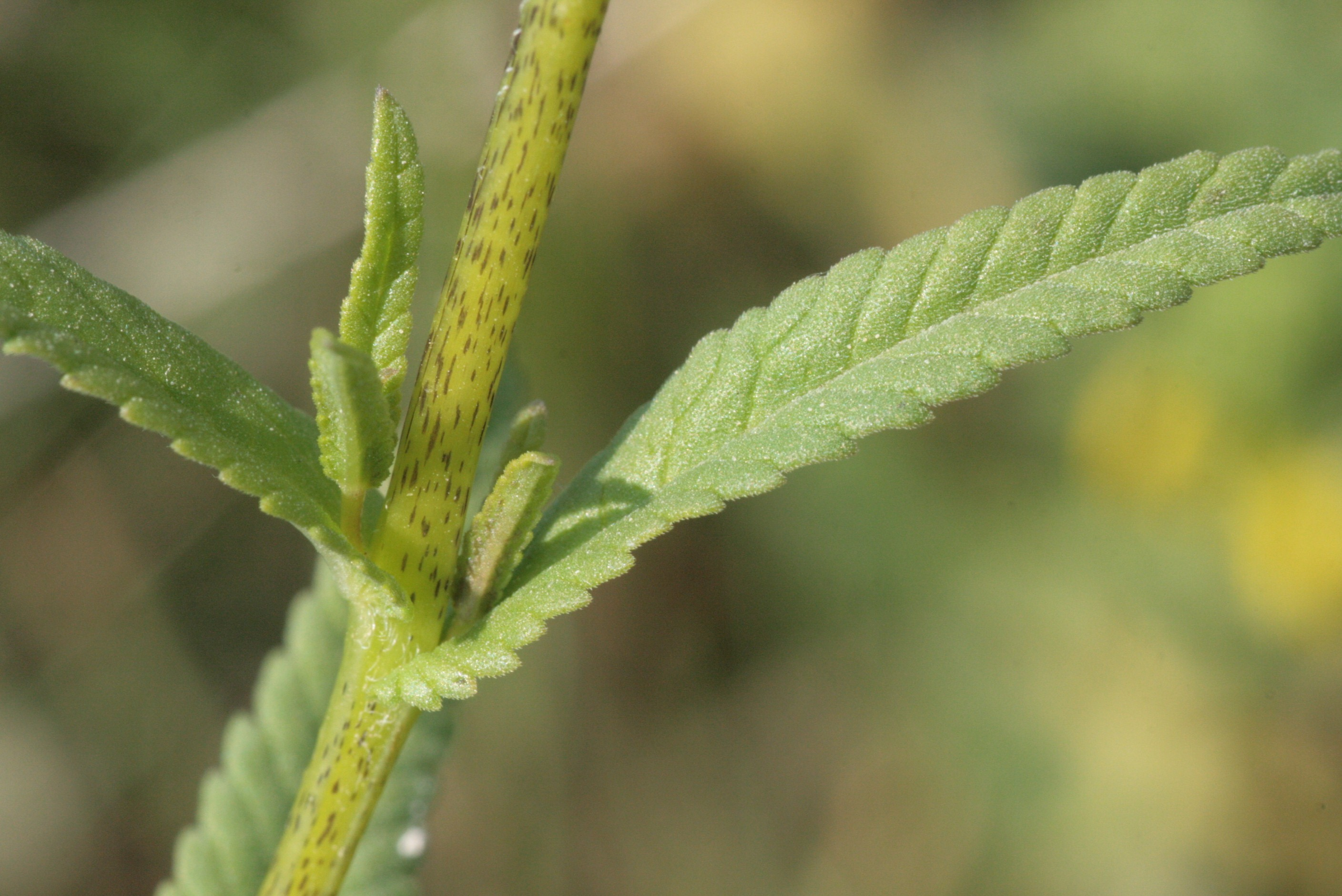 Rhinanthus serotinus